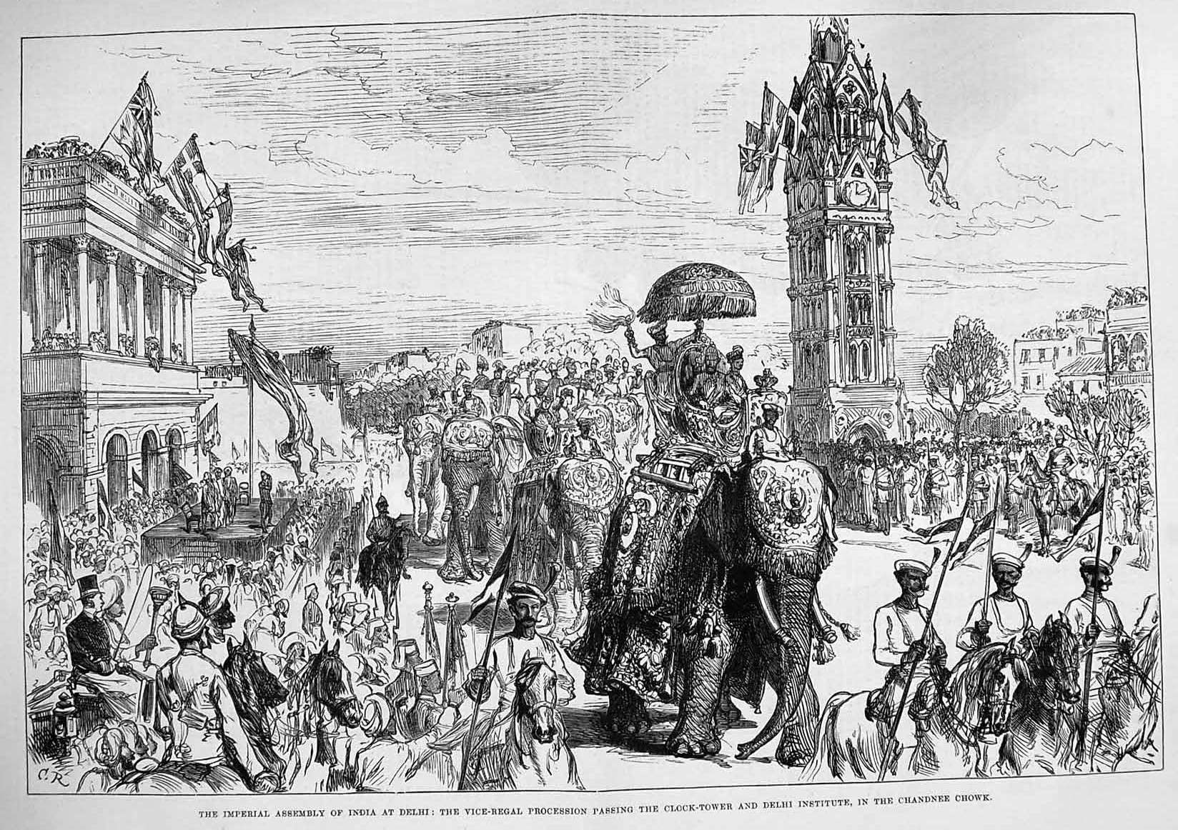 "The Imperial Assembly of India at Delhi: the Viceregal Procession passing the Clock Tower and Delhi Institute in the Chandnee Chowk," Illustrated London News, 1877; with very large scans of *the left half* and *the right half*